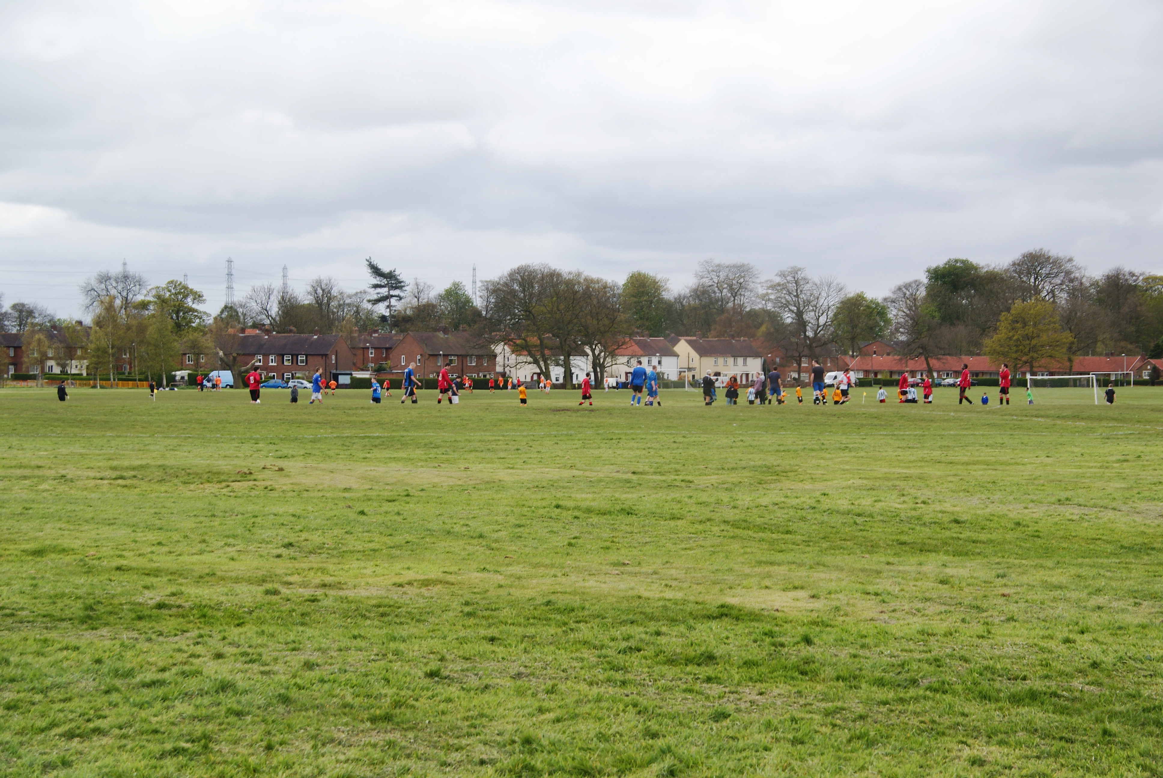 Football matches in Ashton Park